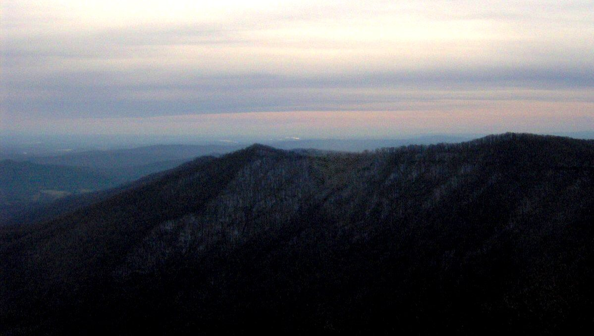 Indian Knob, looking south from the Frozen Head observation platform at Frozen Head State Park in the Cumberland Mountains of Tennessee, USA. Walden Ridge, the dividing line between the Tennessee Valley and the Cumberland Plateau, is visible in the distance (in the photo, the ridge is a line running perpendicular to the summit, left-to-right). Part of Watts Bar Lake is also visible.